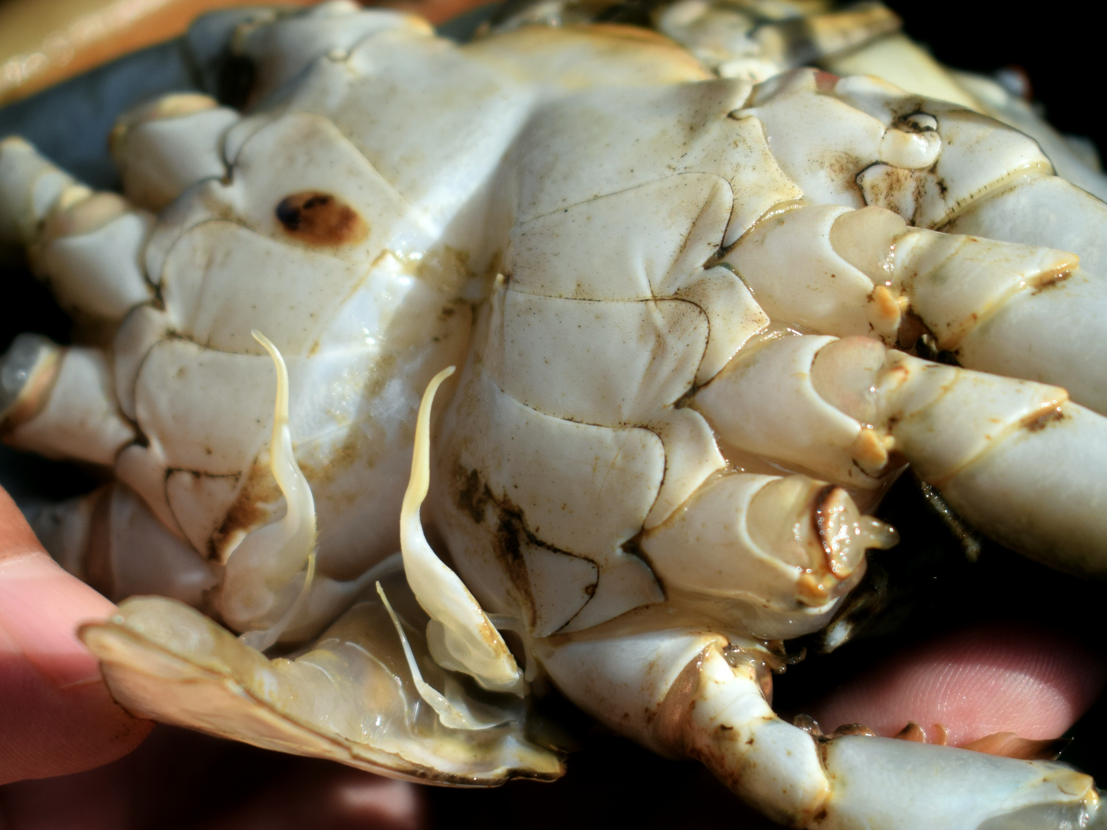 Green mangrove crab Scylla paramamosain; male, 104.7mm CW, first and second gonopods. From Jakarta Bay (Segara Jaya, near Marunda), West Java, Indonesia.